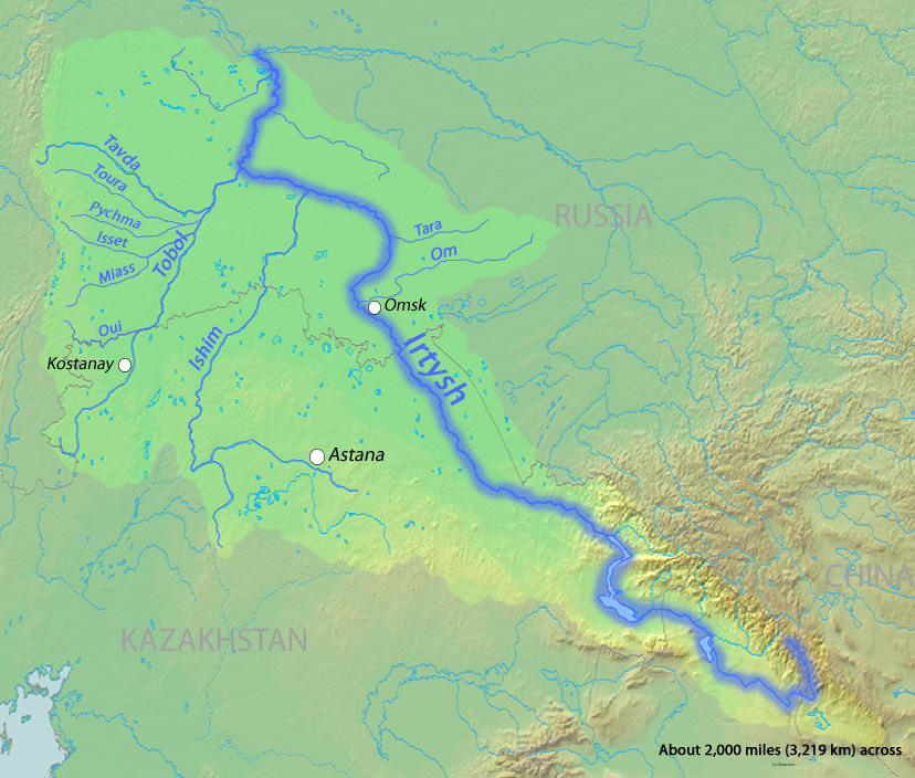 Map of the Irtysh River, (a tributary of the Ob River) which drains northern Kazakhstan, a bit of southern Russia, and a tiny bit of western China.